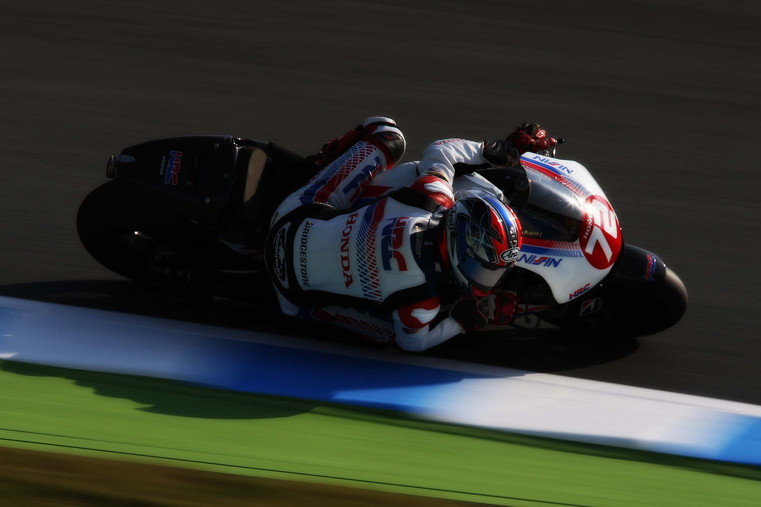 2016 Japanese motorcycle Grand Prix – MotoGP – #72 Takumi Takahashi – Honda – Team HRC with Nissin